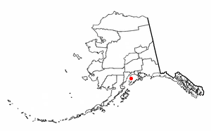 Adapted from Wikipedia's AK borough maps by Seth Ilys.